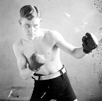 Three-quarter length portrait of pugilist Dave Shade standing in a boxing stance in front of a dark backdrop in a room in Chicago, Illinois.